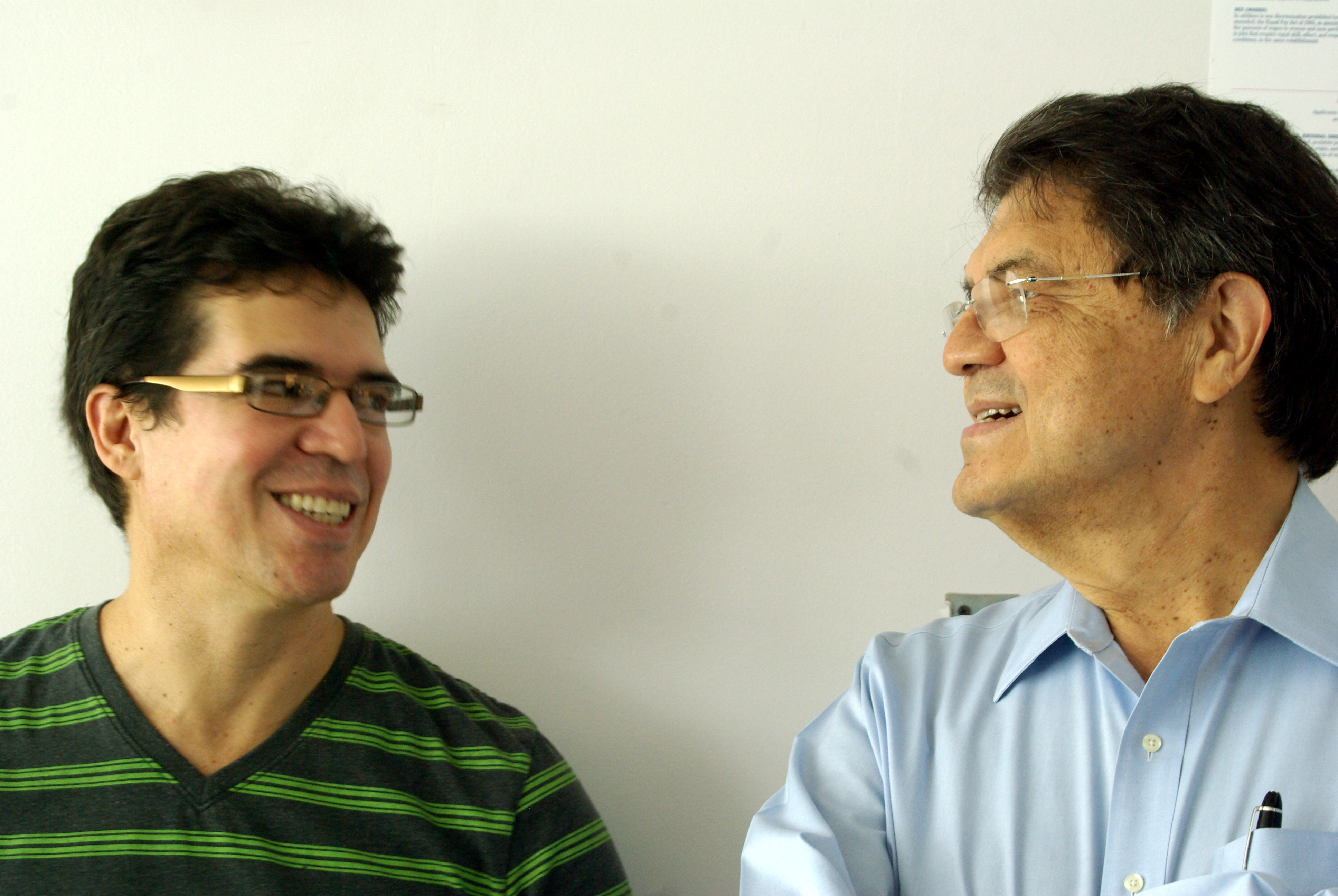 Bolivian writer Edmundo Paz Soldan and Nicaraguan writer Sergio Ramirez at the Miami Book Fair International 2011